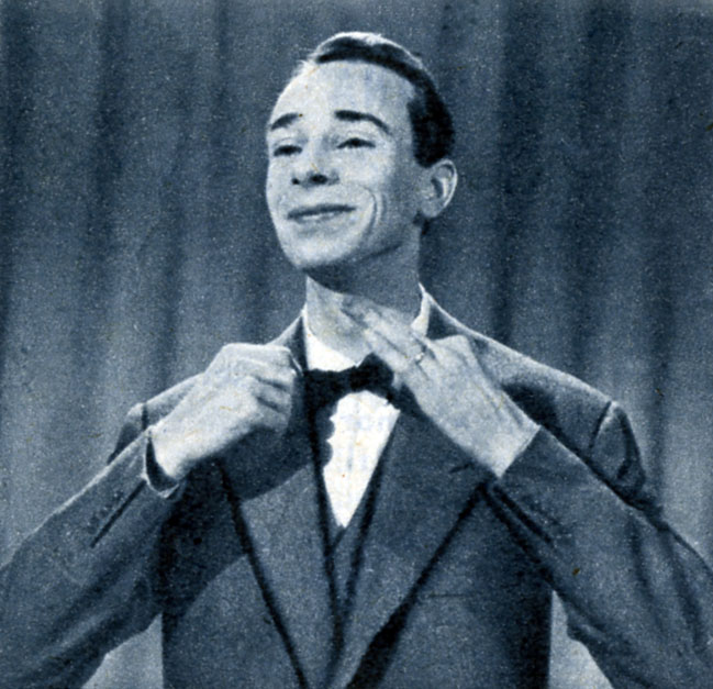 photo from the magazine Radiocorriere (1955)